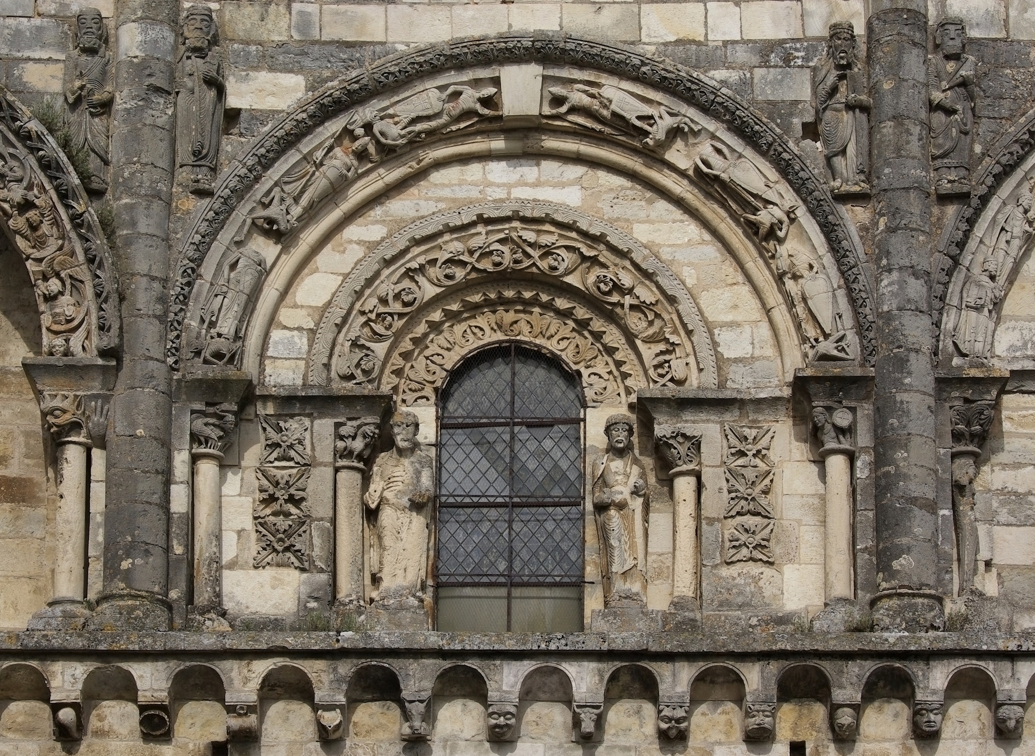 Romanesque church of Civray, France. Second level of the façade : central arch (XIIth century), statues and modillions.